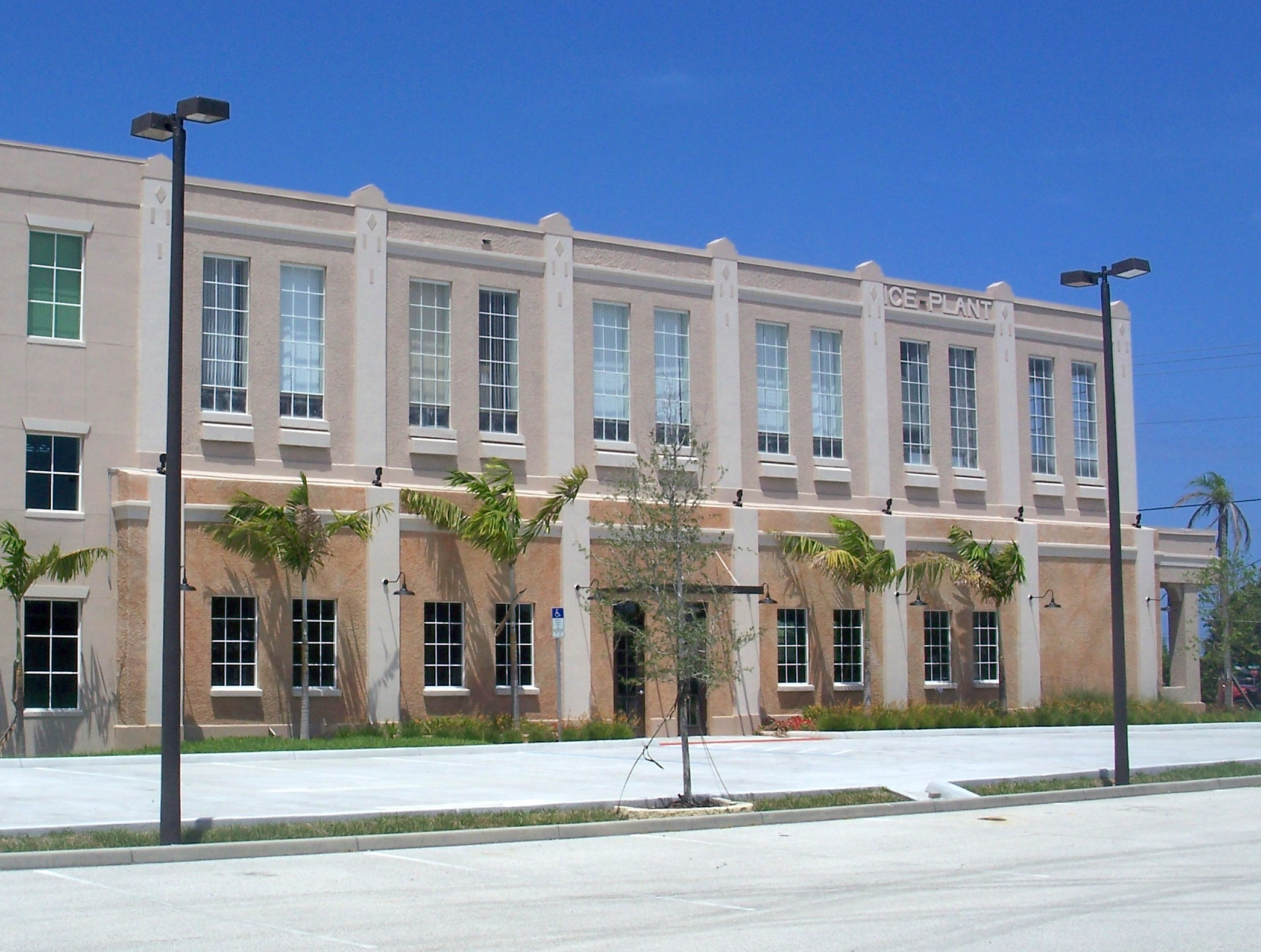 Melbourne, Florida: Florida Power and Light Company Ice Plant